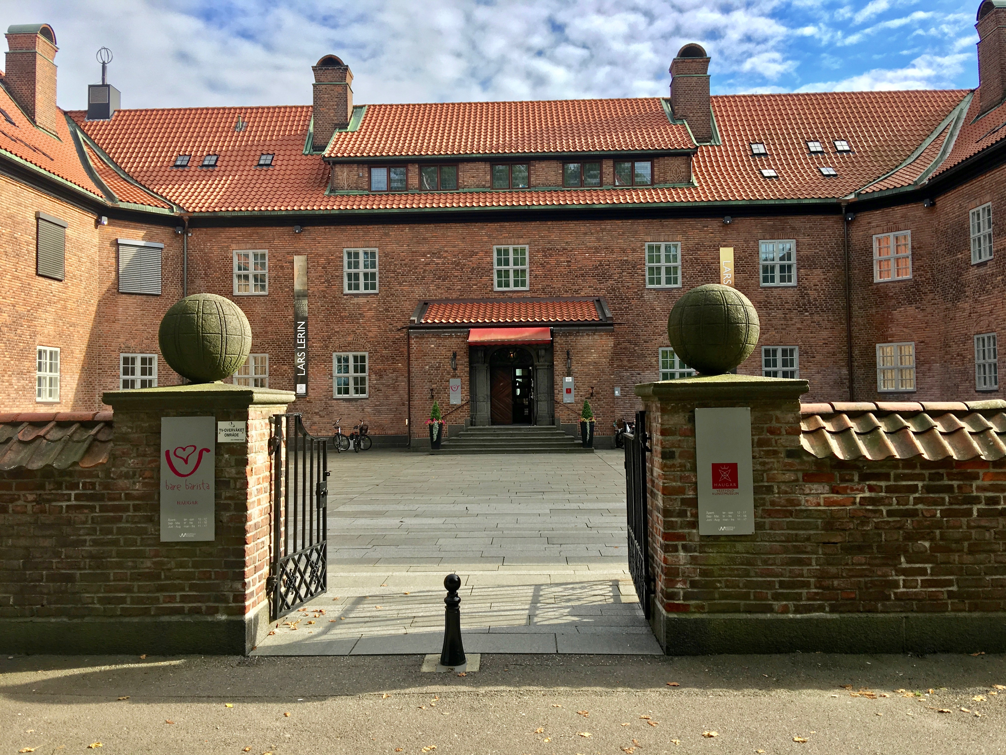 Haugar Vestfold Kunstmuseum (former "Sjømannsskolen"), art museum in Tønsberg, Norway. Architects: Andreas Bjercke and Georg Eliassen 1918–1921.